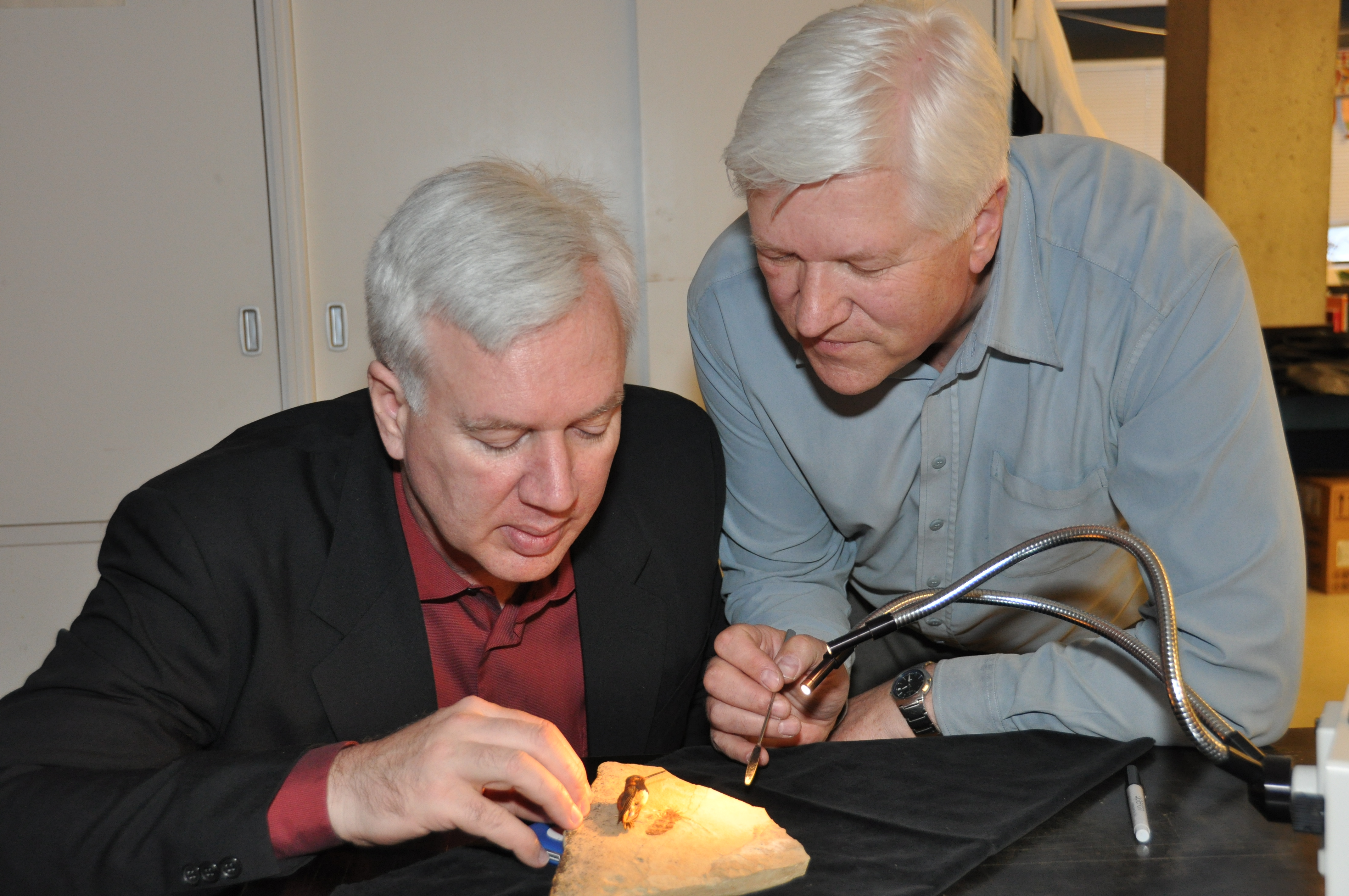 SFU biologists Bruce Archibald and Rolf Mathewes are among four scientists a fossilized giant ant, Titanomyrma lubei, that is comparable in size to a hummingbird.